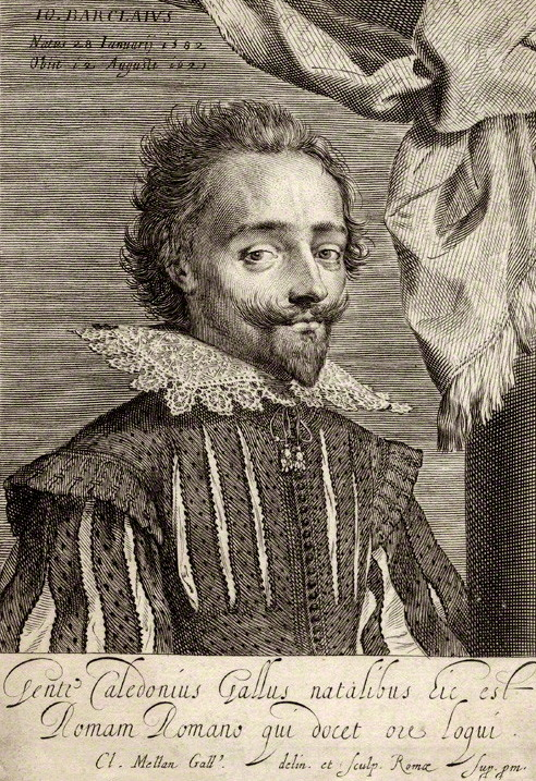 John Barclay, line engraving